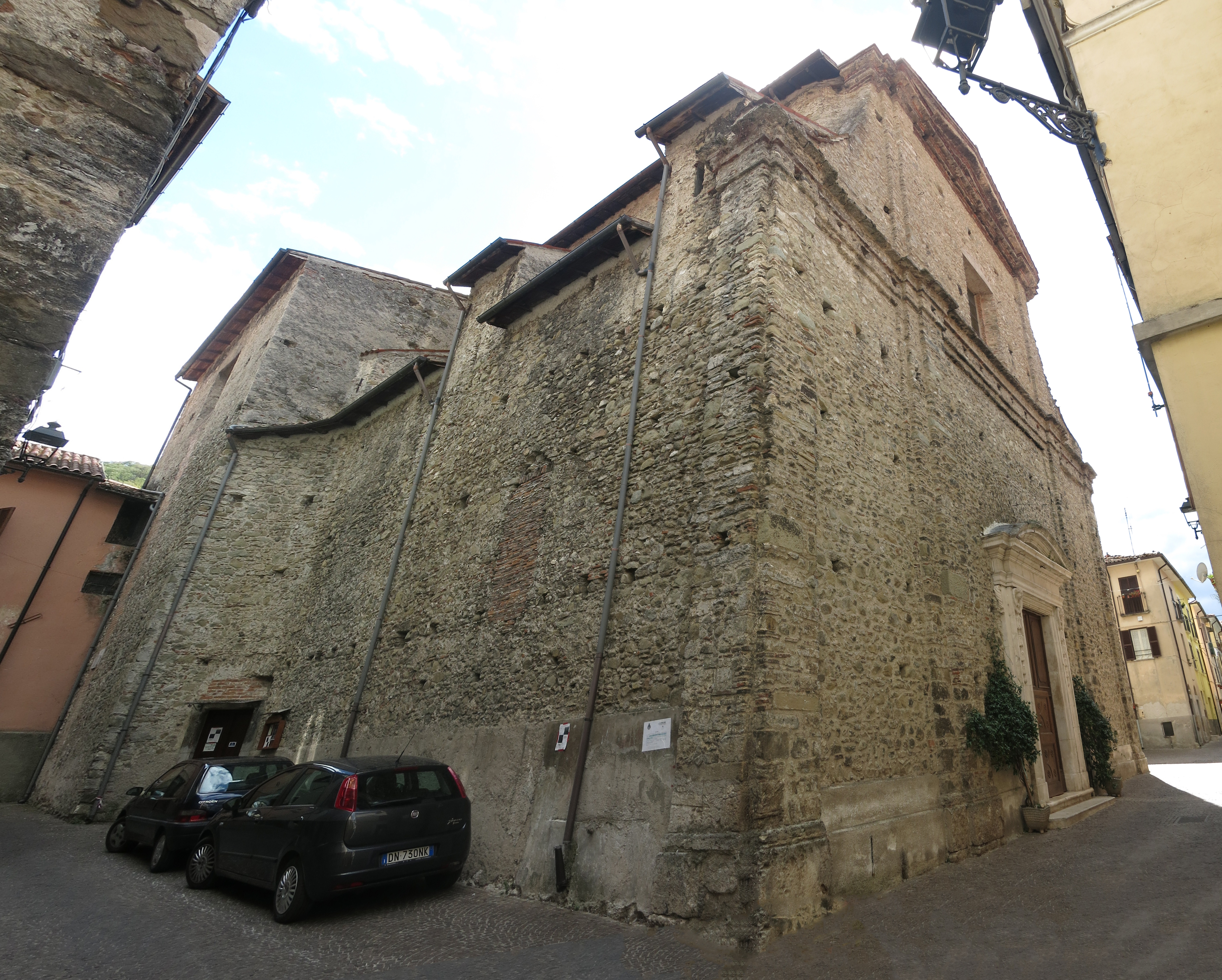 Saint Matthew church - Borgo Velino, province of Rieti (central Italy)